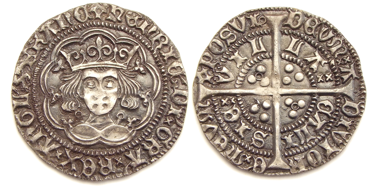 England, Groat, struck in Calais with portrait of King Henry VI.